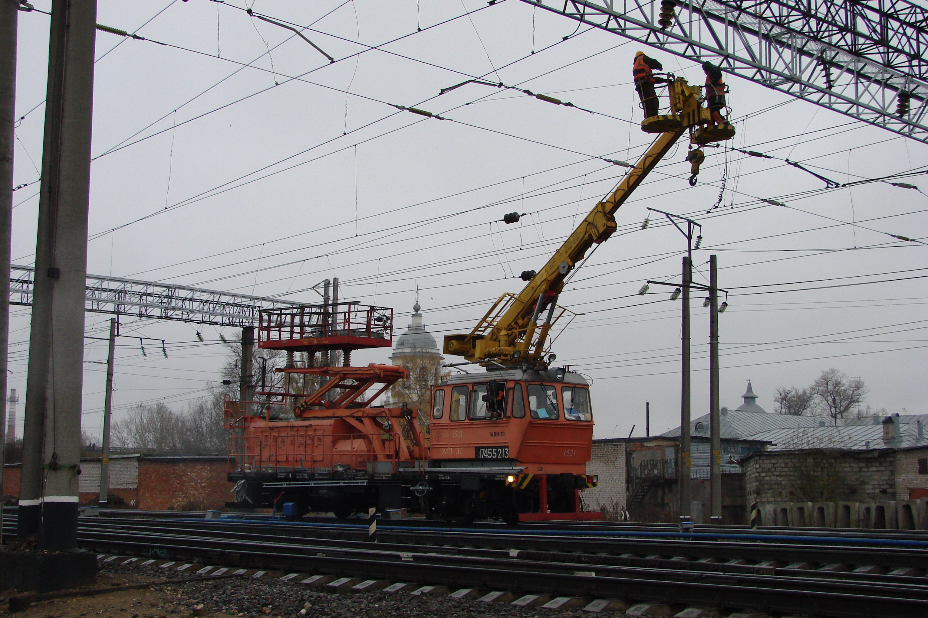 Russian Railways, Rail service vehicle 1ADM-1.3